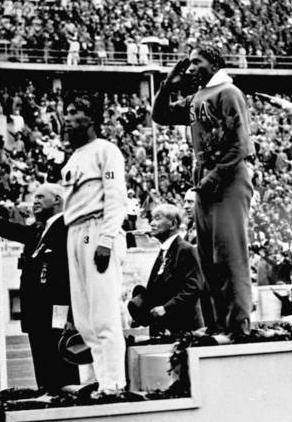 Factual corrections and alternative descriptions are encouraged separately from the original description. Additionally errors can be reported at this page to inform the Bundesarchiv. Original historic description: Sommerolympiade, Siegerehrung Weitsprung Olympische Spiele 1936 in Berlin, Siegerehrung im Weitsprung: Mitte Owens (USA) 1., links: Tajima (Japan) 3., rechts Long (Deutschland) 2., Zentralbild/Hoffmann [Berlin.- Olympische Sommerspiele. Siegerehrung im Weitsprung, Naoto Tajima, Jesse Owens, Lutz Long] Abgebildete Personen: * Long, Carl Ludwig "Luz" Dr.: Leichtathlet, Olympiateilnehmer 1936, Deutschland * Owens, Jesse: Leichtathlet, Olympiateilnehmer 1936, USA (GND 118738917) * Tajima, Naoto: Leichtathlet, Dreisprung, Olympiateilnehmer 1936, Japan